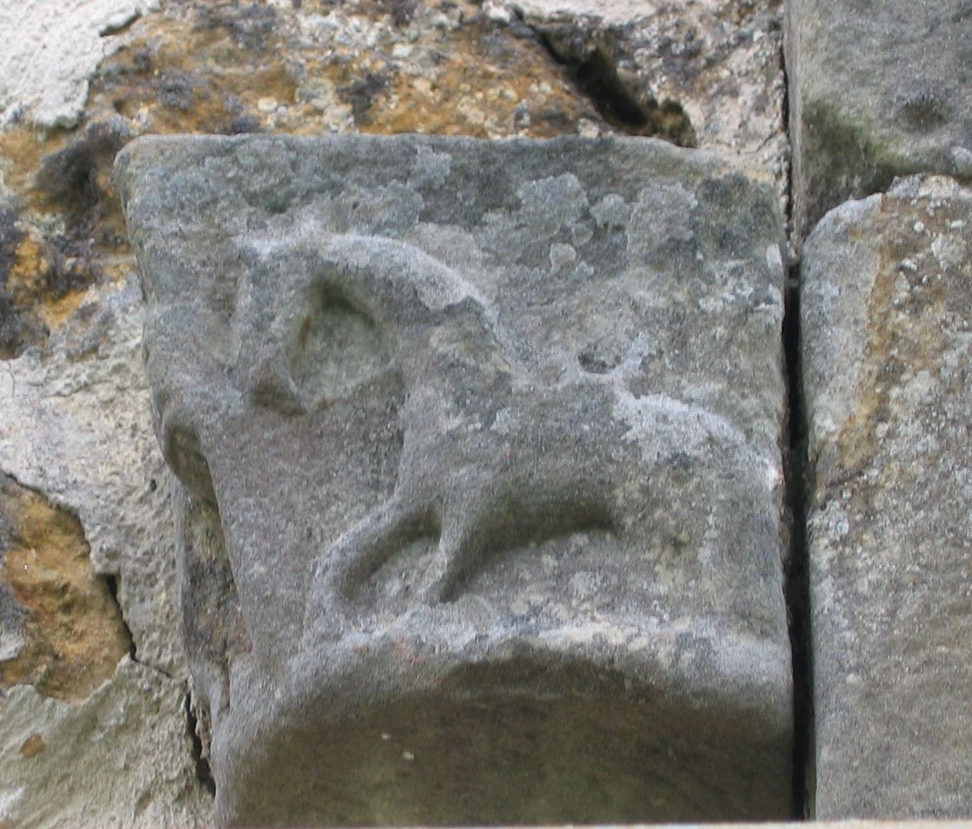 Romanesque capital of the Hermitage of Saint Christopher Martyr at Ailanes (Burgos, Castile and León).